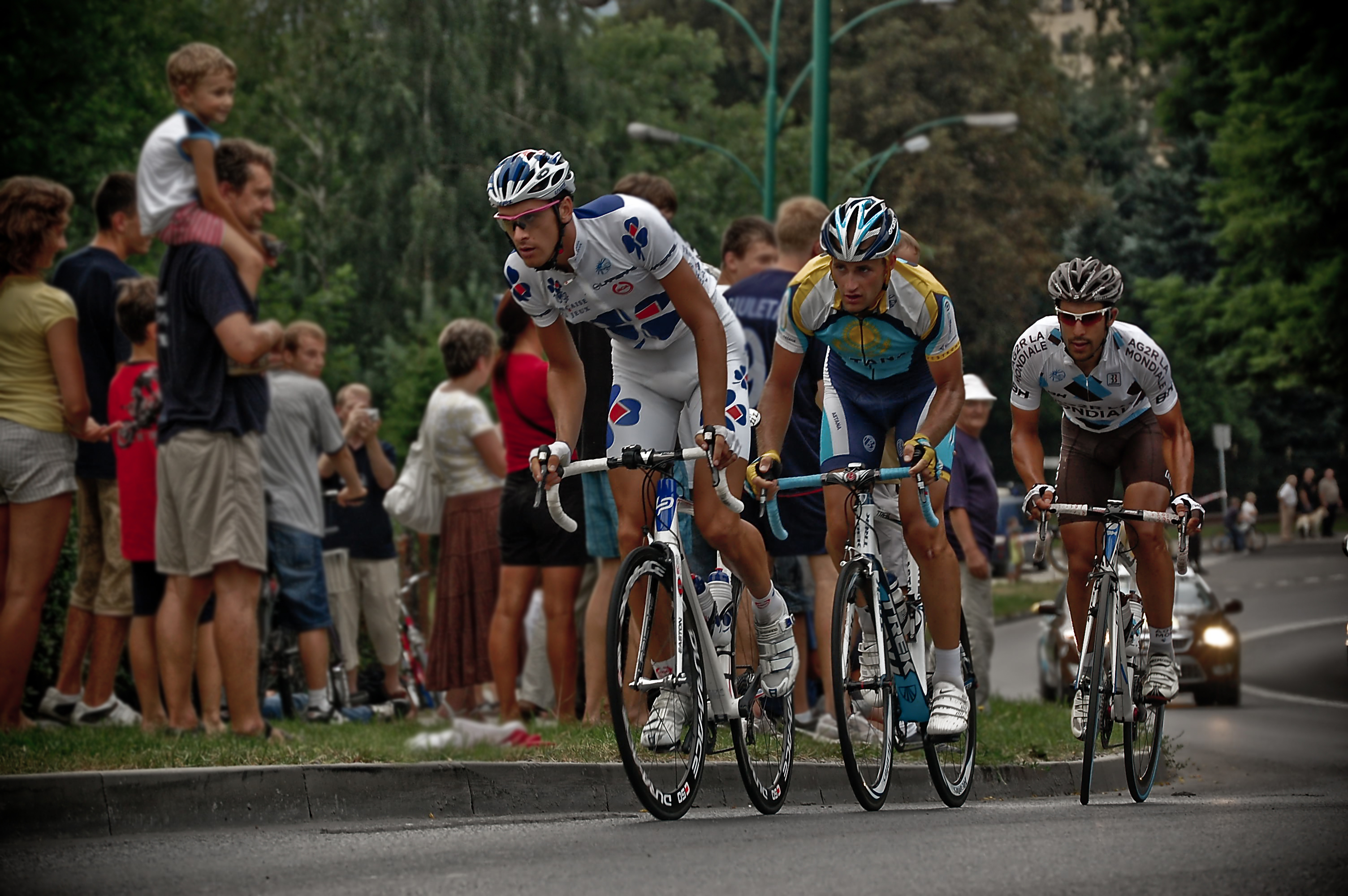 Tour de Pologne in Łańcut, Poland.